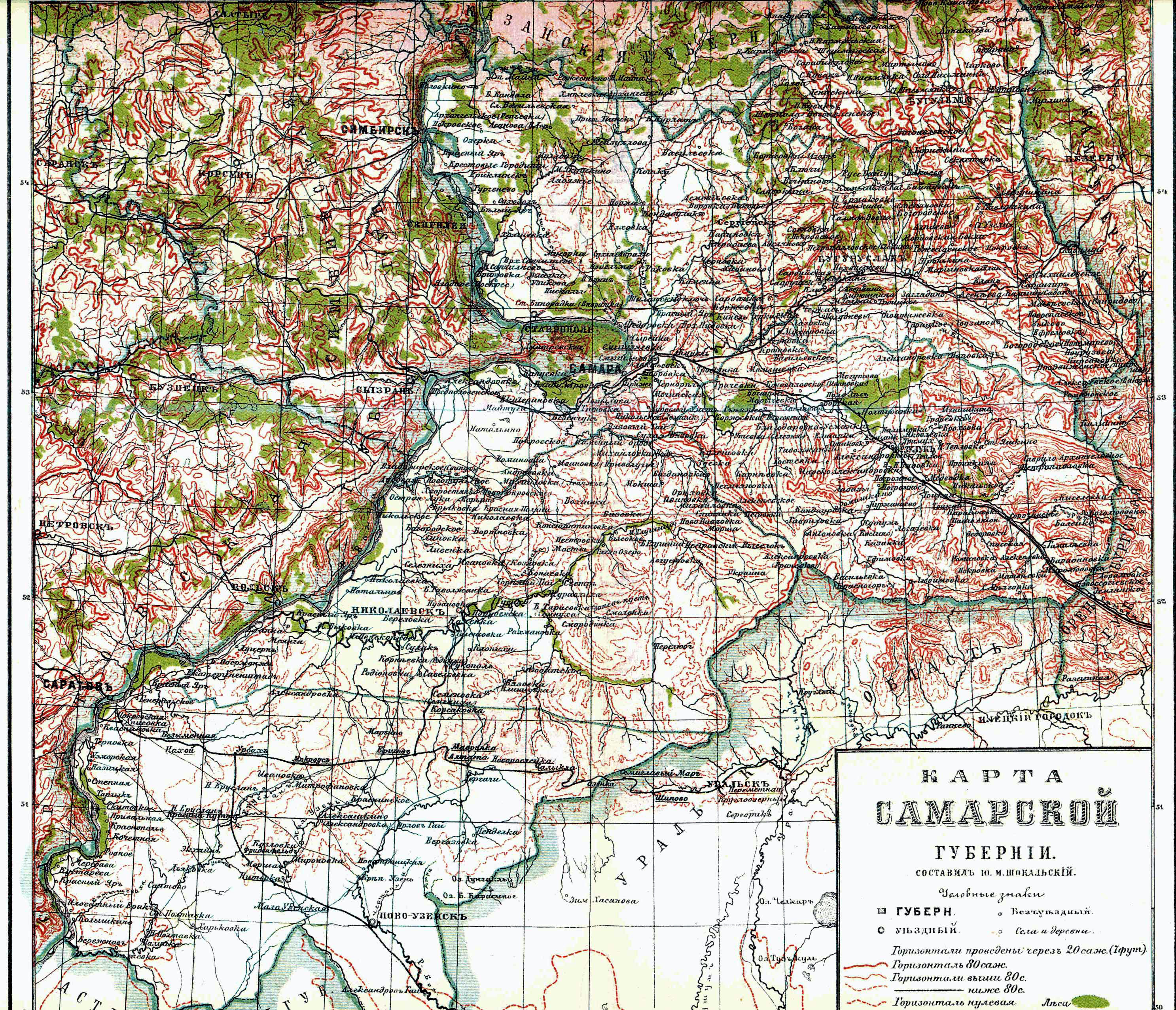 Illustration from Brockhaus and Efron Encyclopedic Dictionary (1890—1907)